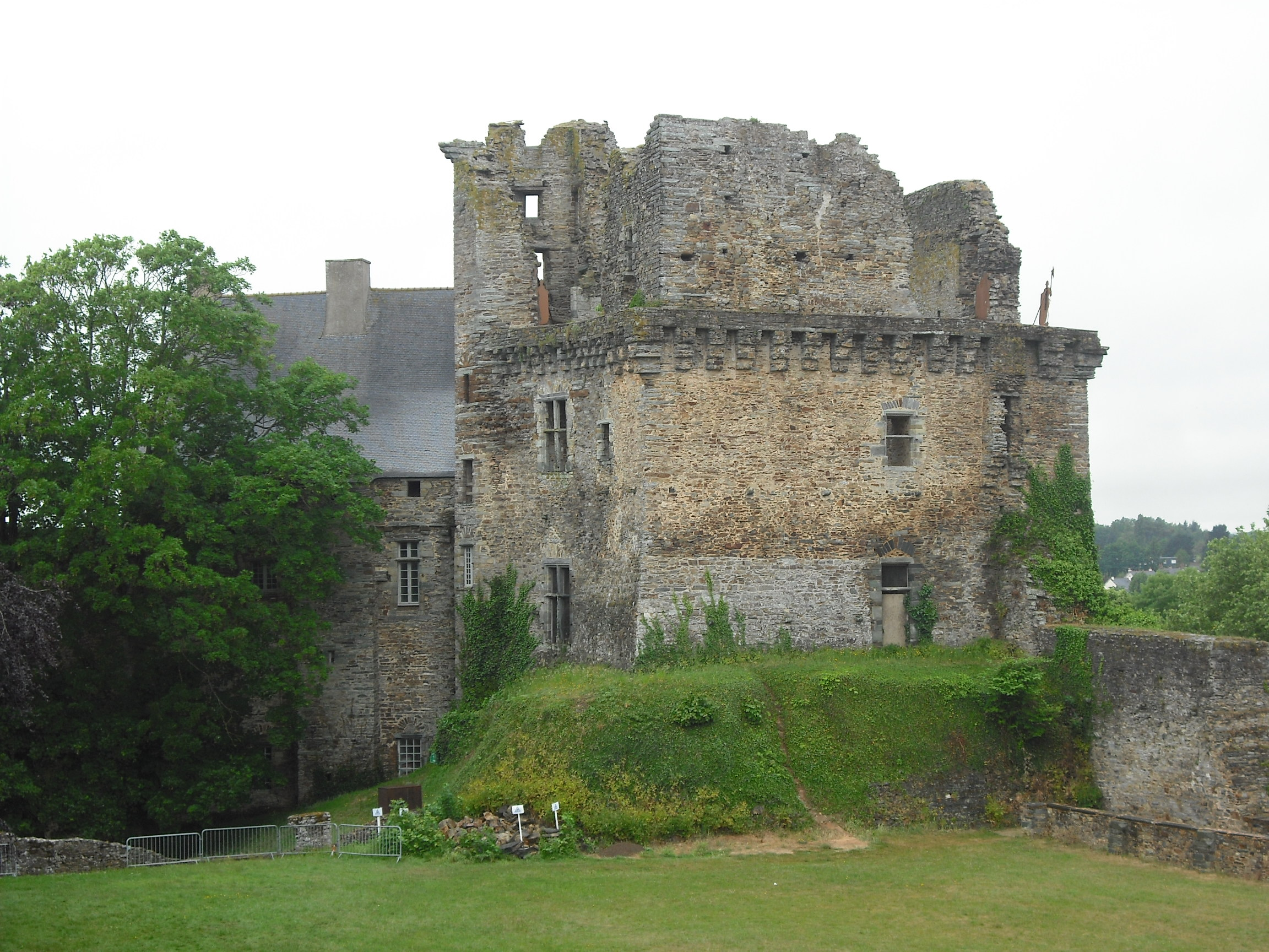 The Dungeon of the medieval castle in Chateaubriant, Loire-Atlantique, France